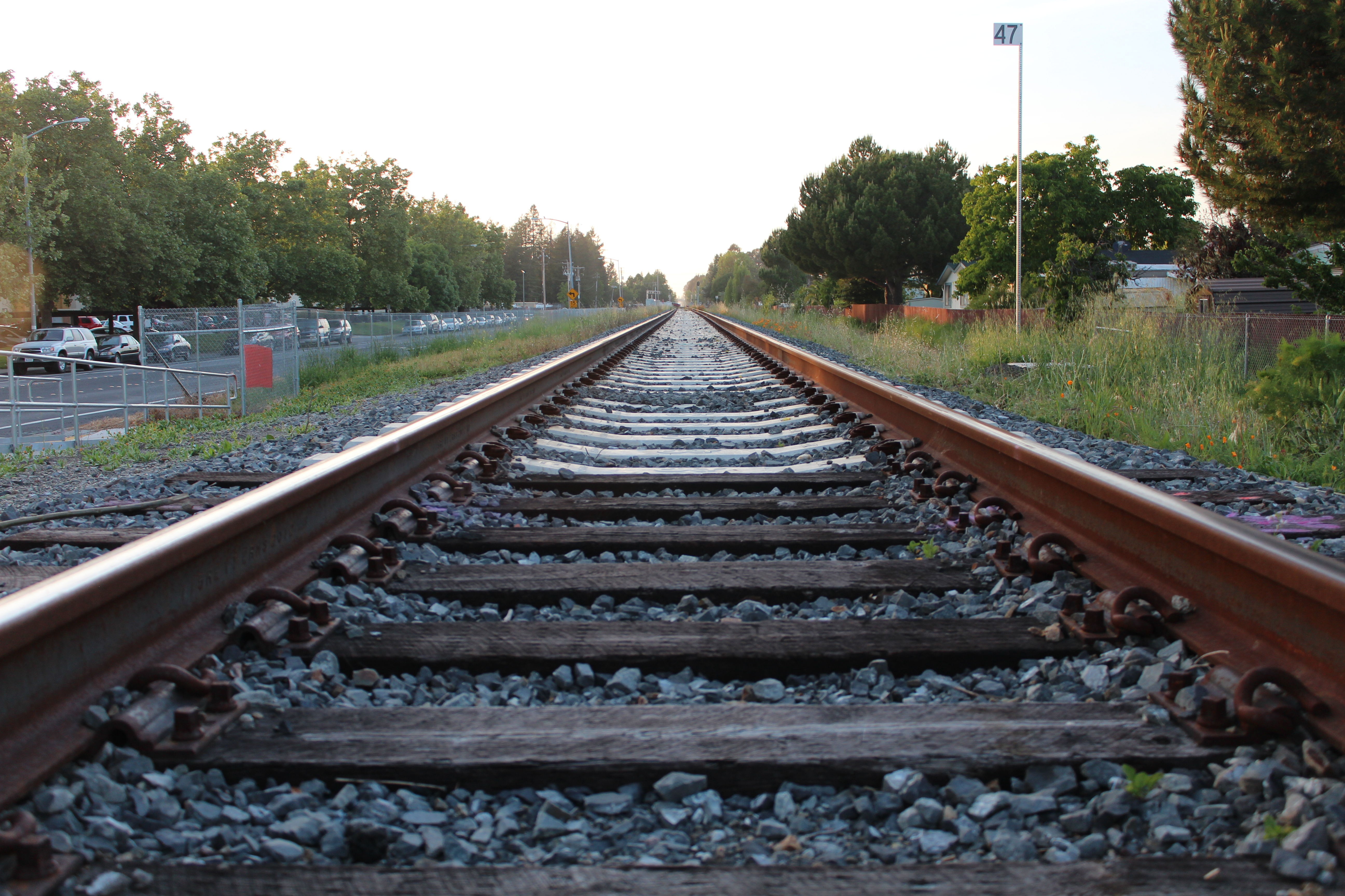 Northwestern Pacific Railroad rail tracks at Copeland Creek pedestrian crossing facing North parallel to Seed Farm Dr. in Rohnert Park, CA